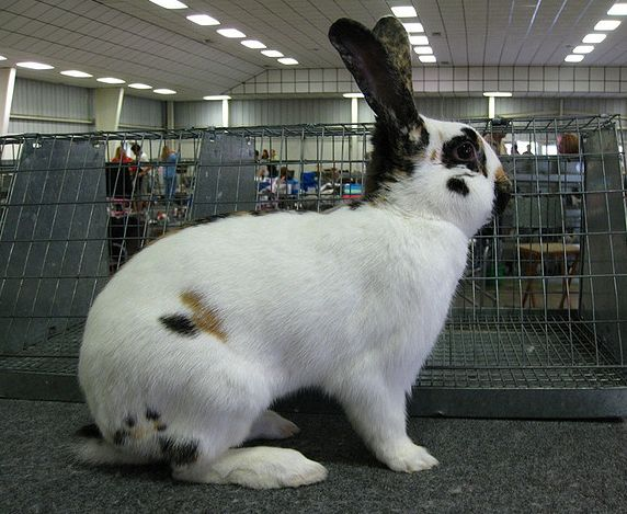 Simon the Rhinelander